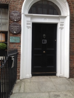 Lord Edward Carson was born in this house, number 4 Harcourt Street in central Dublin, Ireland, in 1854.